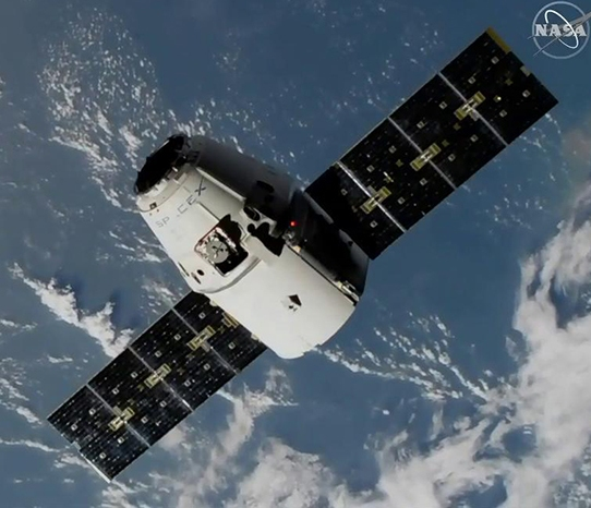 The SpaceX Dragon resupply ship approaches the International Space Station over the Atlantic Ocean.